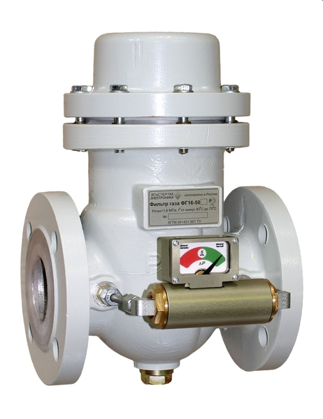 ФГ16-50